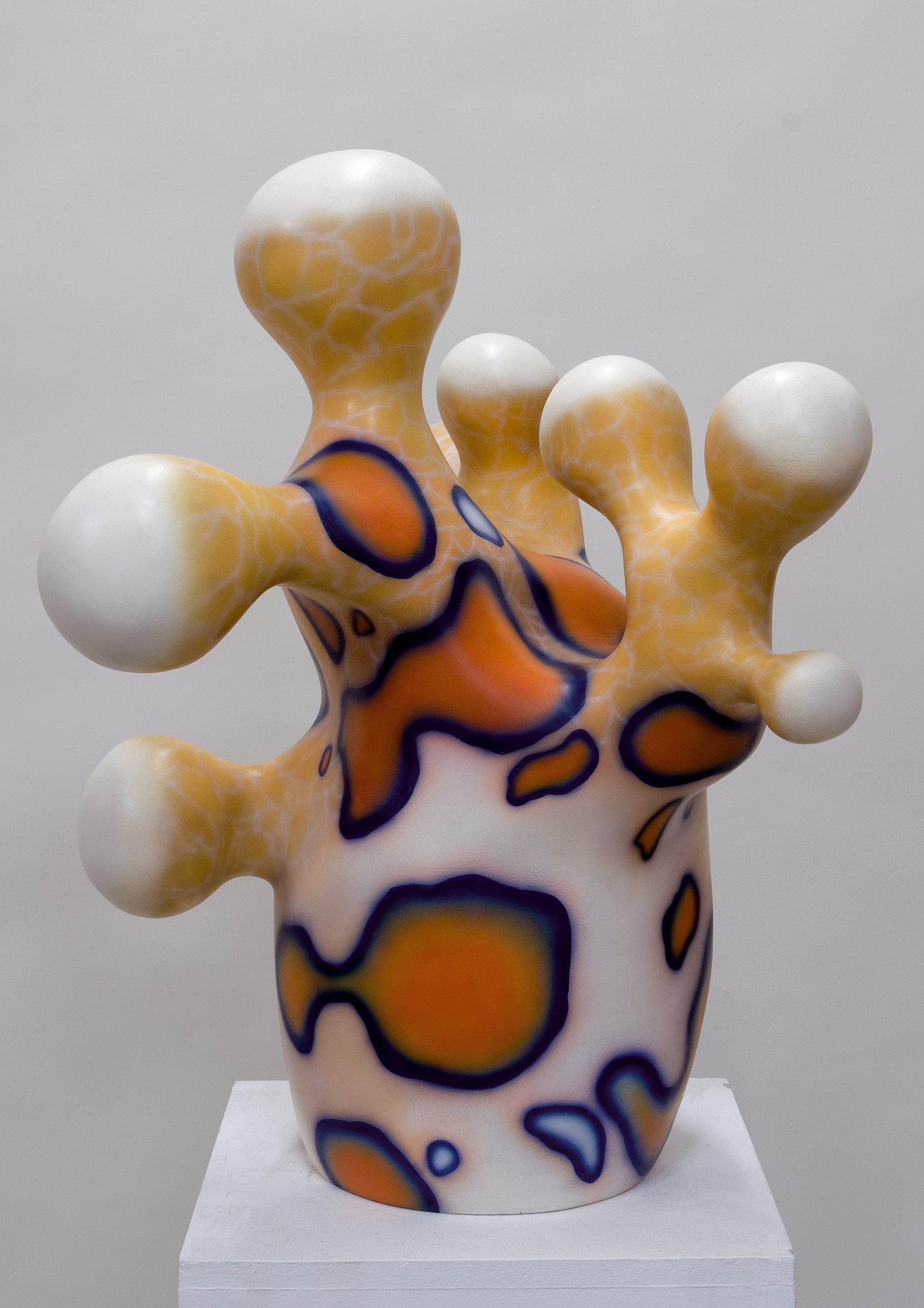 sculpture MS 566 by Marina Schreiber in Germany